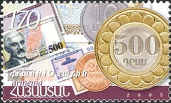 Stamp of Armenia